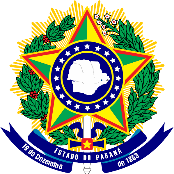 Old Coat of Arms of Parana State, Brazil - 1892.